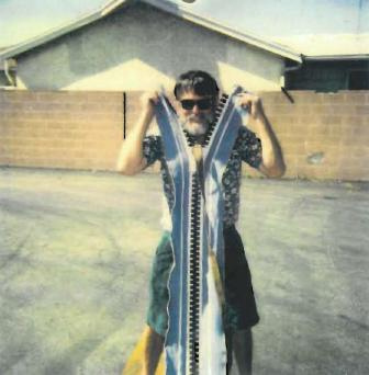 Spragg Bag zipper to couple two Spragg Bags together